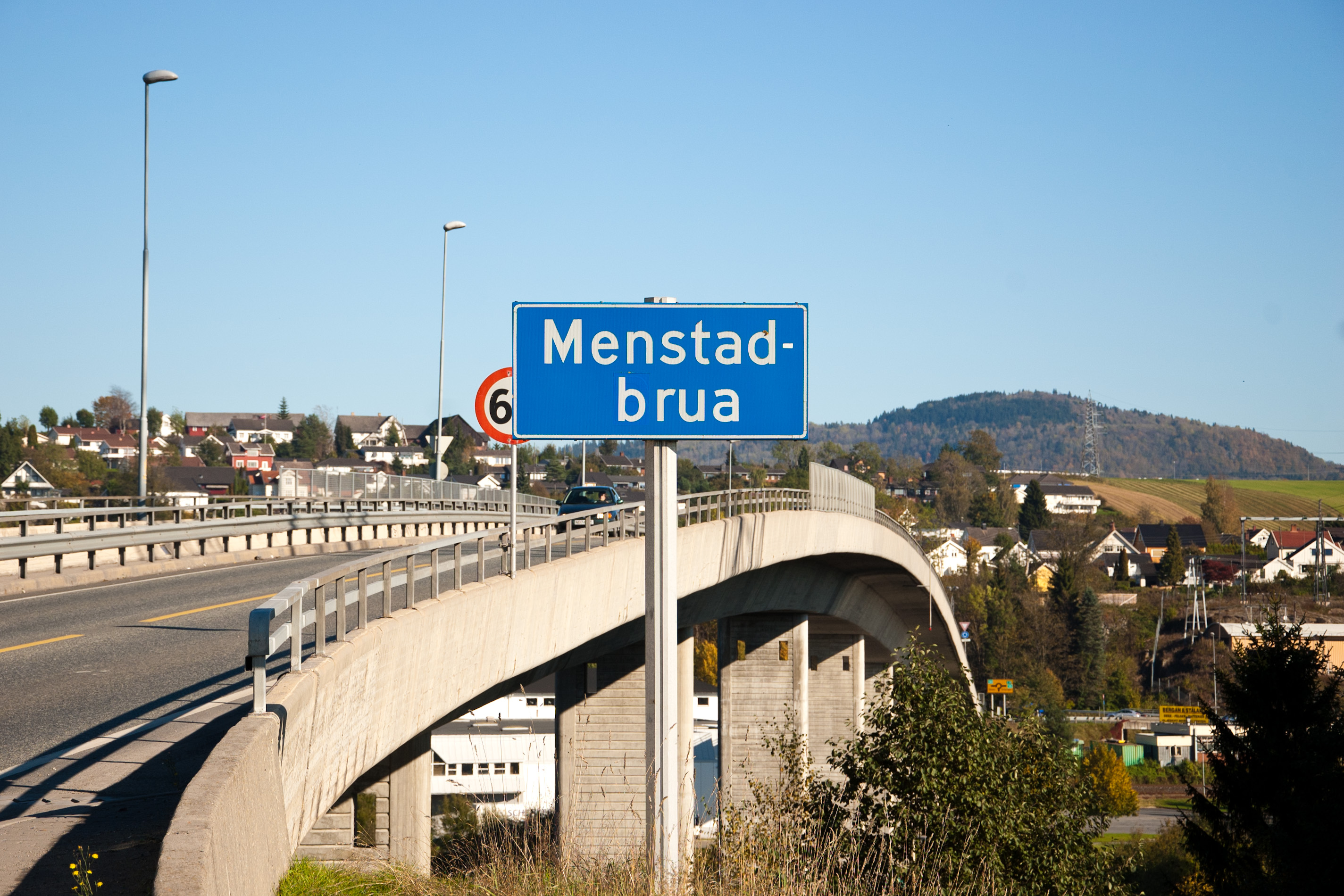 The Menstad Bridge, over the Skien River in Skien, Telemark, Norway.